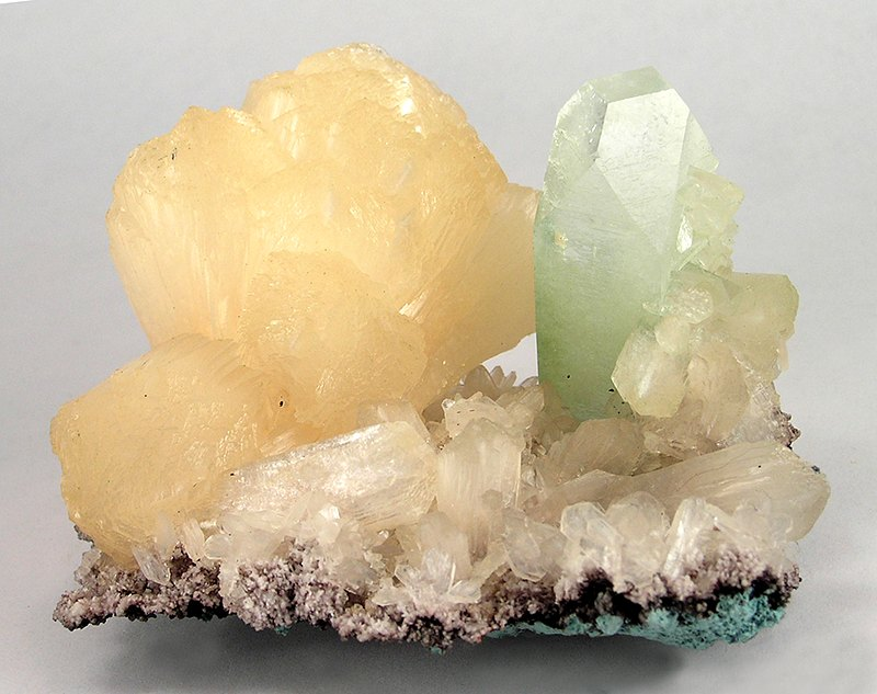 Apophyllite-(KF), Stilbite-Ca Locality: Jalgaon District, Maharashtra, India (Locality at ) Size: cabinet, 9.7 x 7.5 x 6.0 cm Stilbite and Fluorapophyllite on Stilbite This is a fine mineral specimen, not only for the two generations of stilbite and a rocket ship-like fluorapophyllite, but also for the superb balance of the whole specimen. The whole specimen is on a matrix of basalt and small white chalcedony clusters. A large, cauliflowerlike cluster of ivory colored, lustrous, translucent, stilbite, to 7.0 cm, is offset by pearlescent, blades of stilbite to 2.5 cm across. Then there is the 5.5 cm tall, lustrous and translucent, pastel green fluorapophyllite crystal alongside.